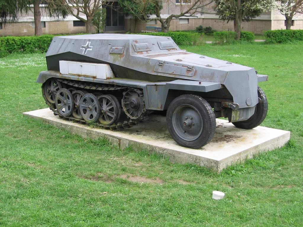 Svidník war museum - open air exposition. Remark: The vehicle is the German SdKfz 250 halftrack.